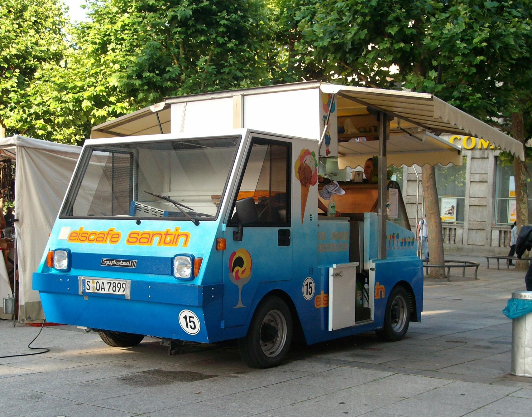 Electric car, manufactured by the Dutch company Spijkstaal, used for selling ice cream in Stuttgart, Germany.